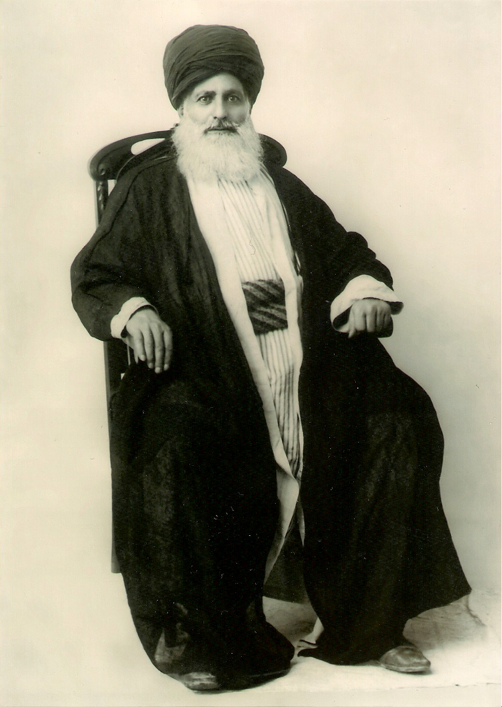 Al-Sayyed Muhsen Al-Amin